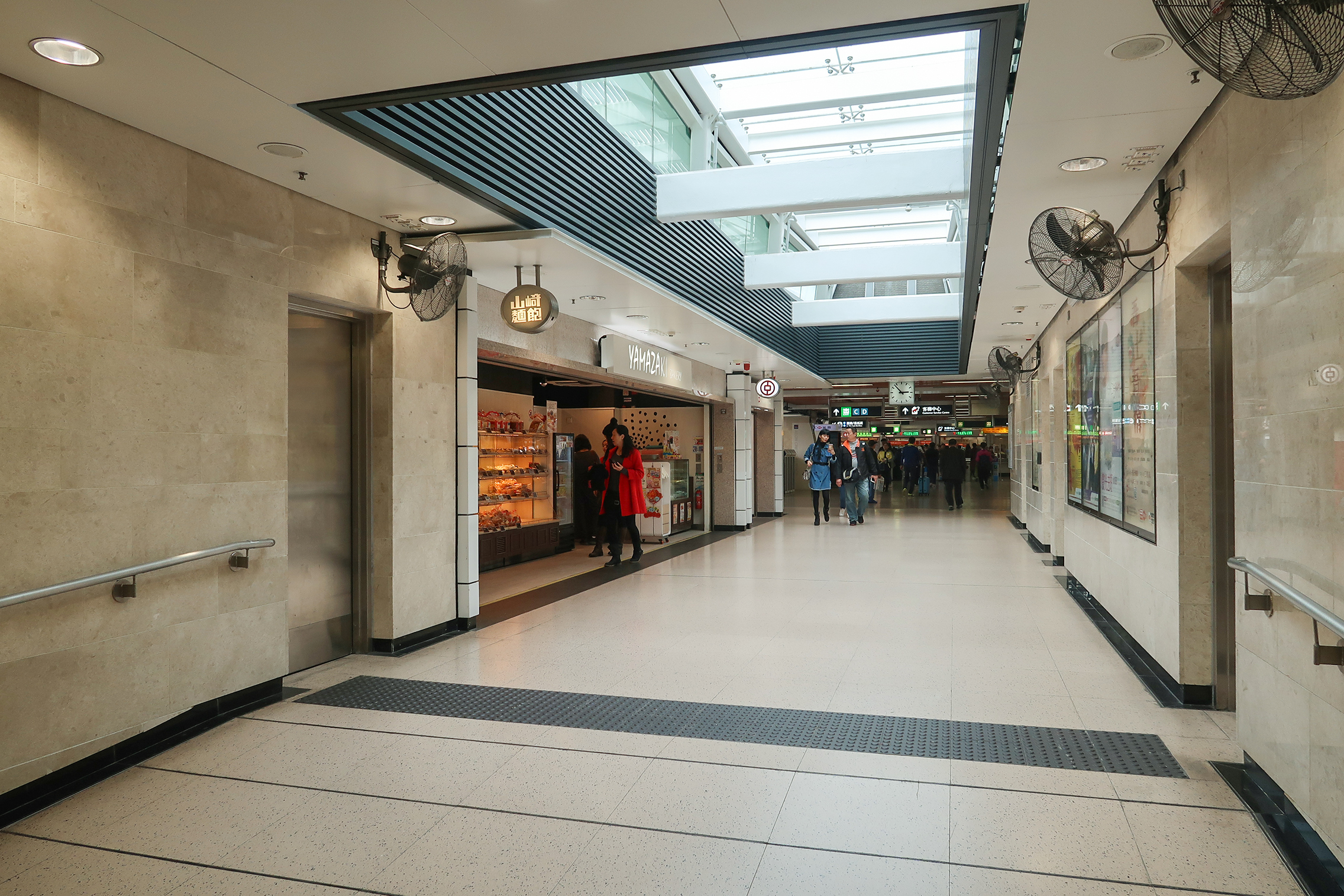 Fo Tan Station Concourse new access